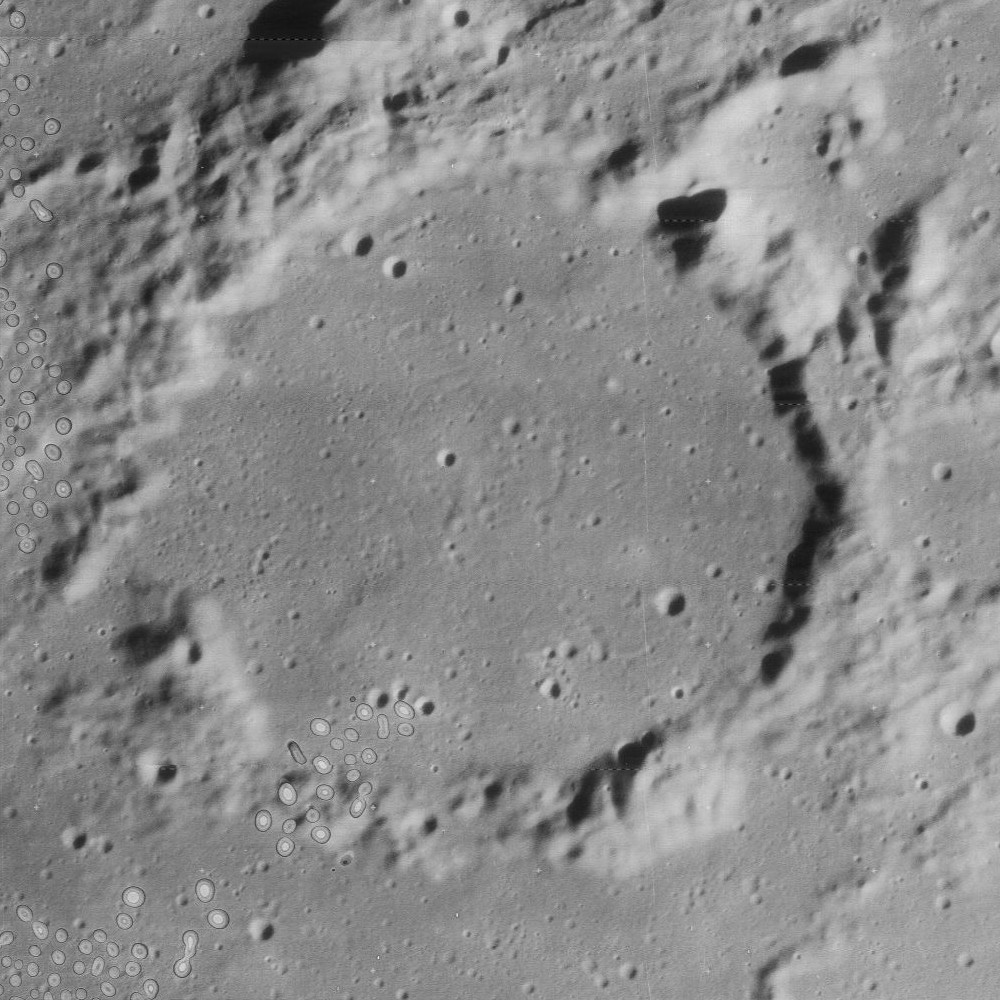 Kane crater, on the moon. Spots in lower left are blemishes on original.